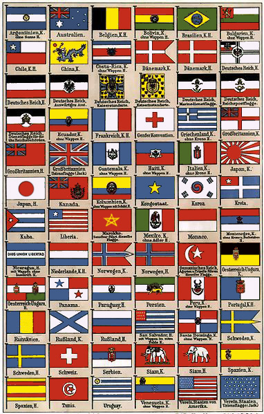 Flags 1900 (Austrian dictionnary)